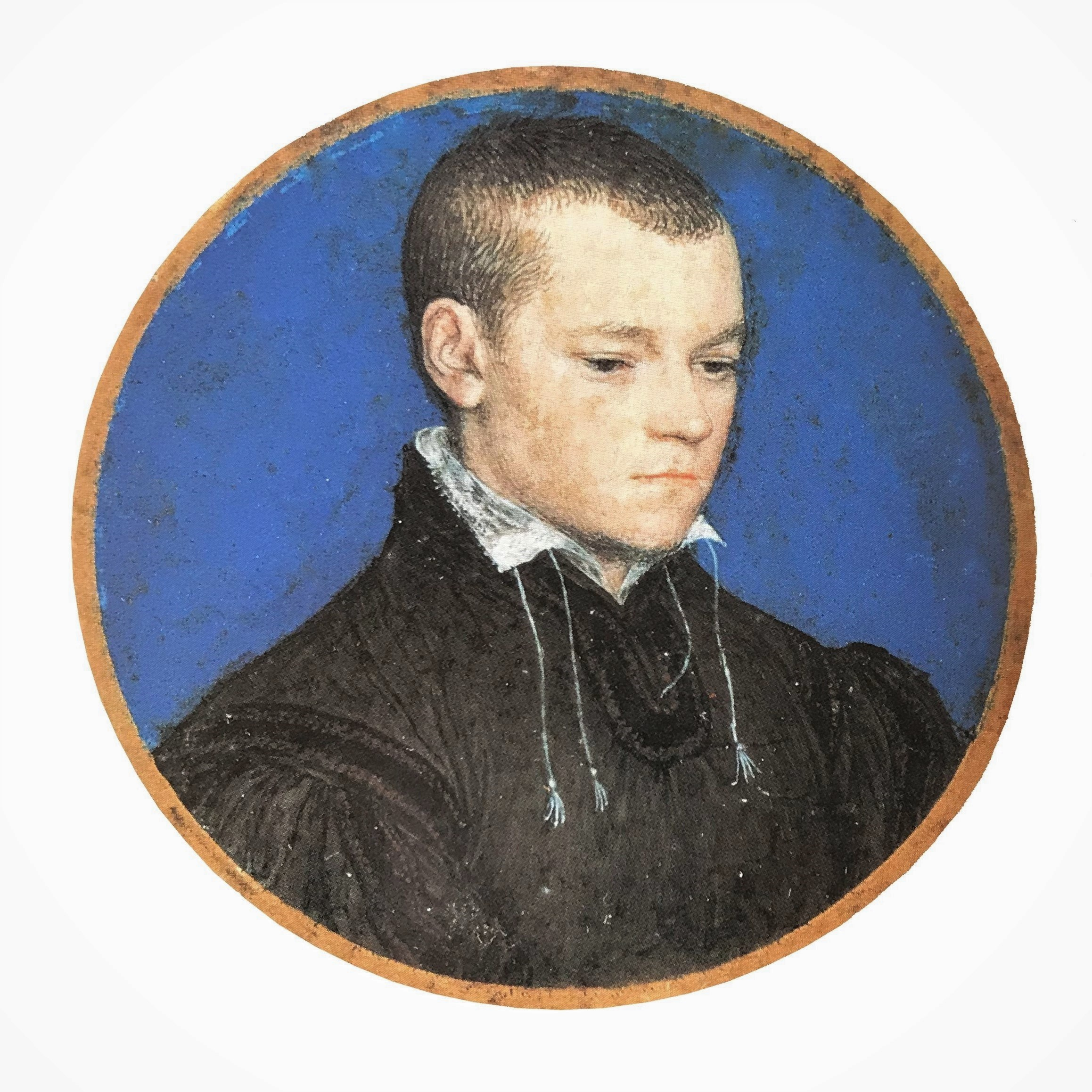 A portrait miniature of a young man, perhaps Gregory Cromwell (c.1520-1551), son of Thomas Cromwell, Henry VIII's chief minister.